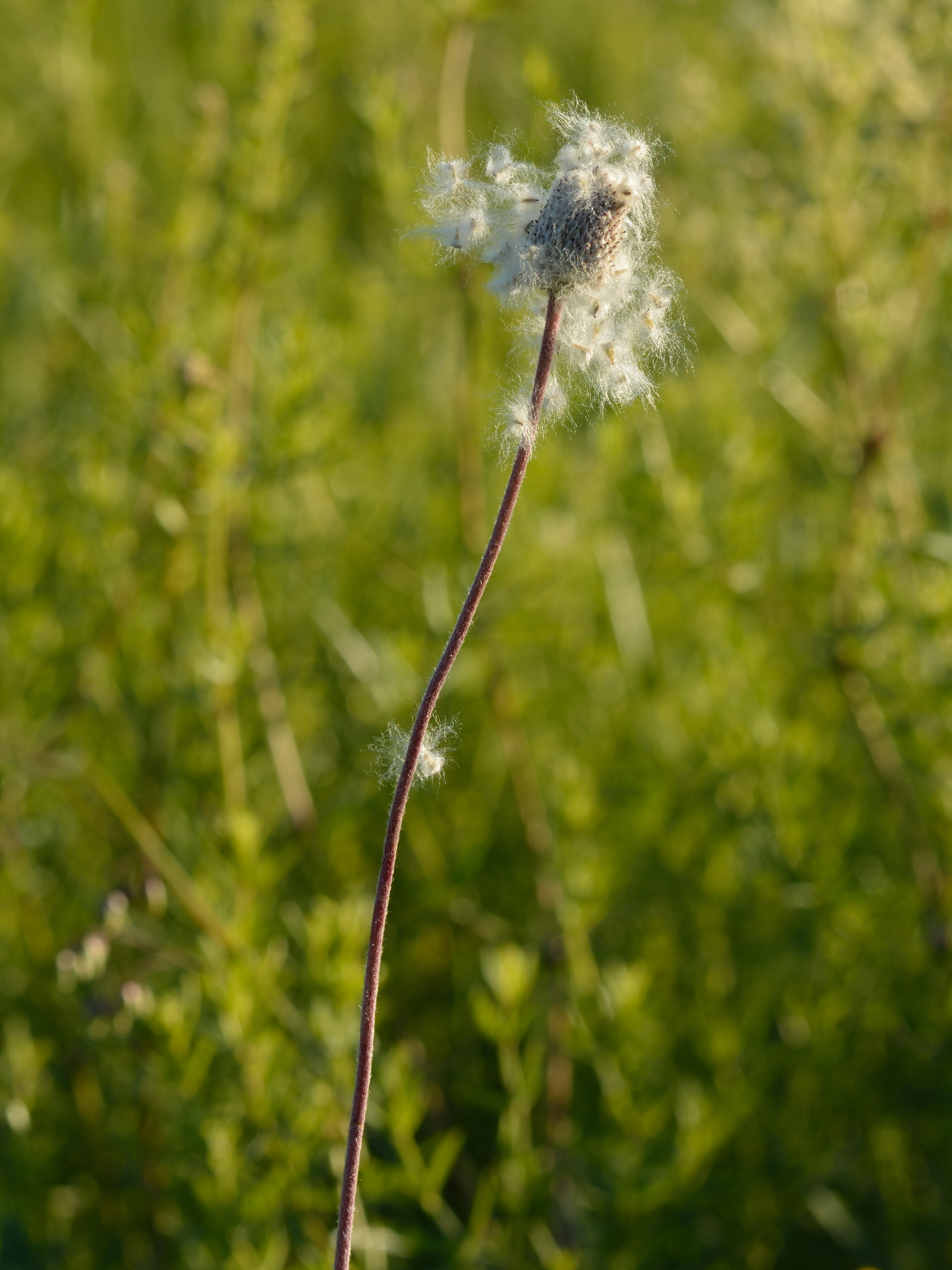 Wood anemone (Anemone sylvestris) with seeds. Alvar (landform) in Keila, Northwestern Estonia.